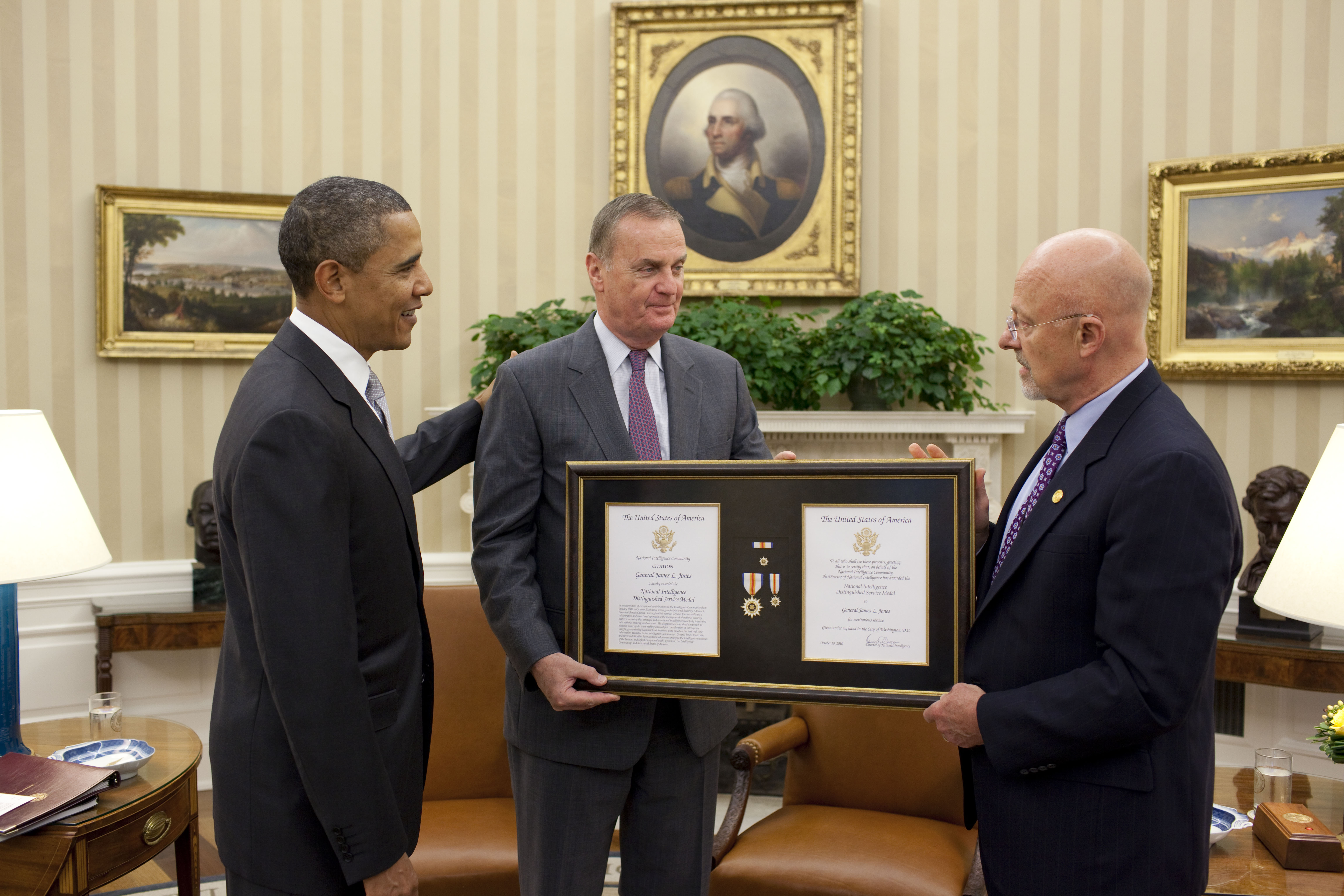 Barack Obama, President, and James R. Clapper, Director of National Intelligence, presented the National Intelligence Distinguished Service Medal to James L. Jones, National Security Advisor, at the Oval Office in Washington, D.C. on October 20, 2010.